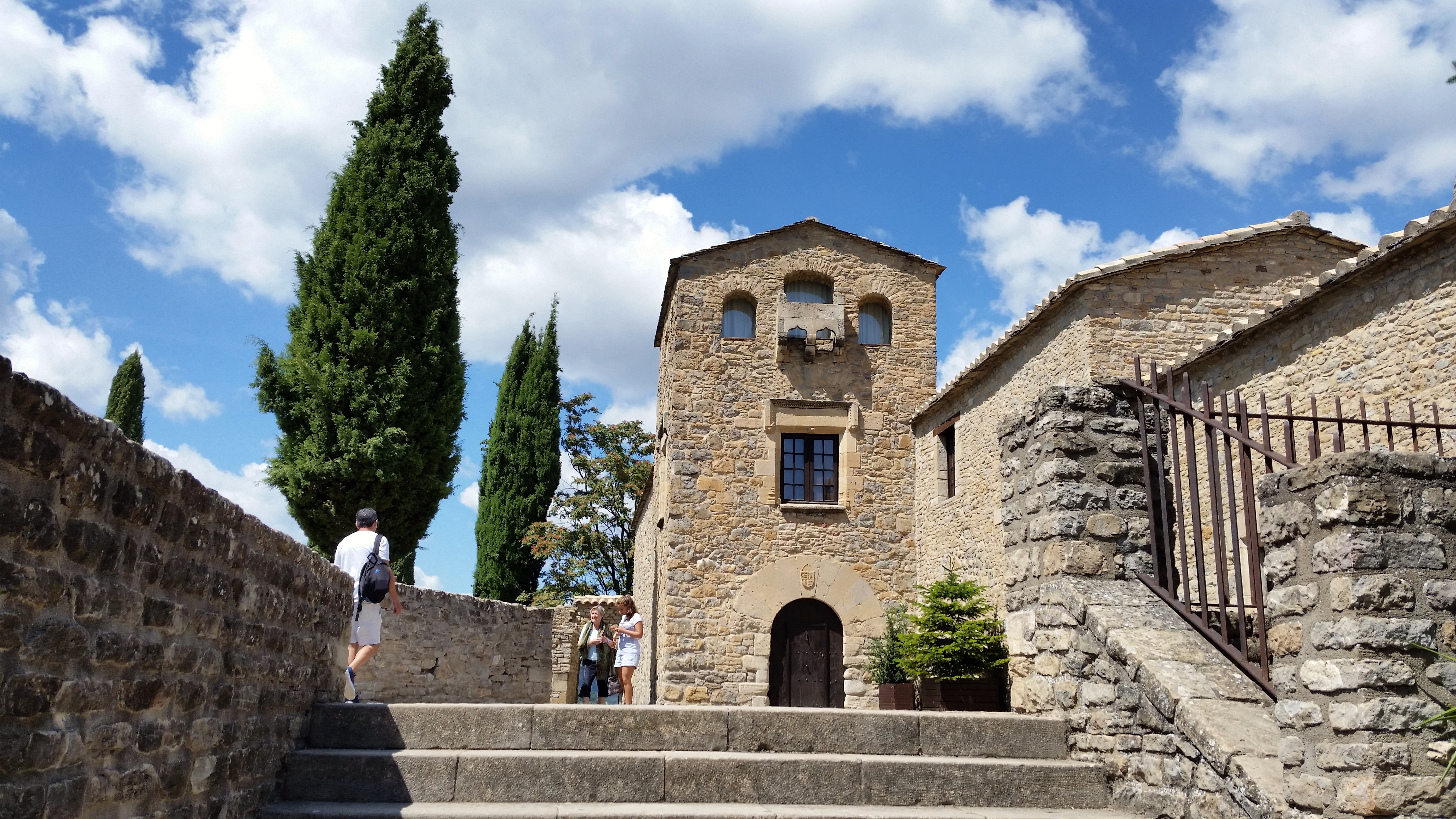 Palace Roda de Isabena